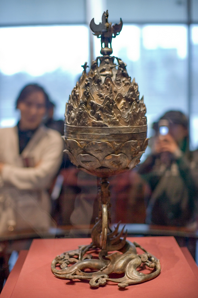 Great Gilt-bronze Incense Burner of Baekje, National Treasure of Republic of Korea No. 287